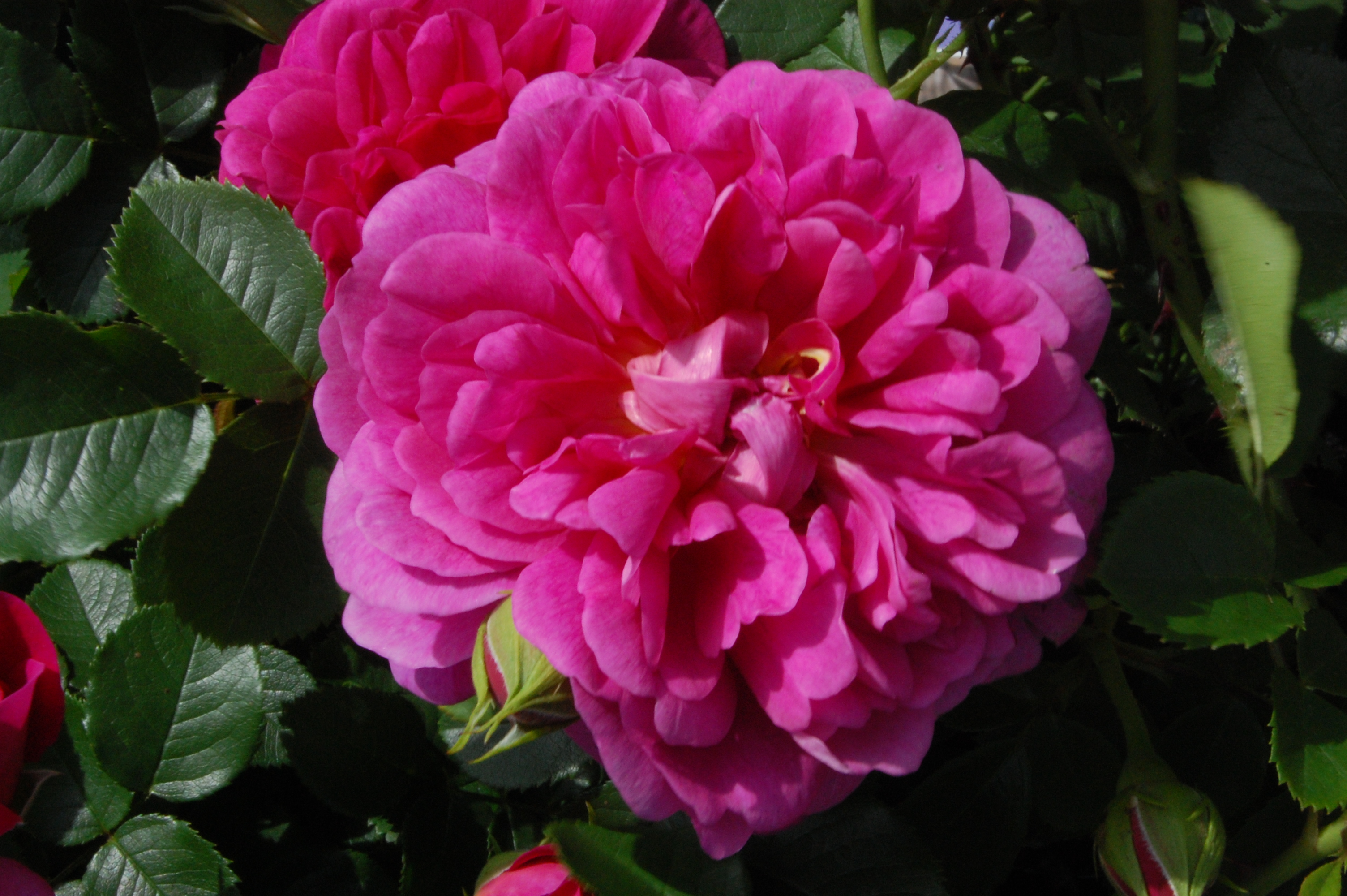 Rose 'Princess Anne' on sale at a garden centre in the English midlands.